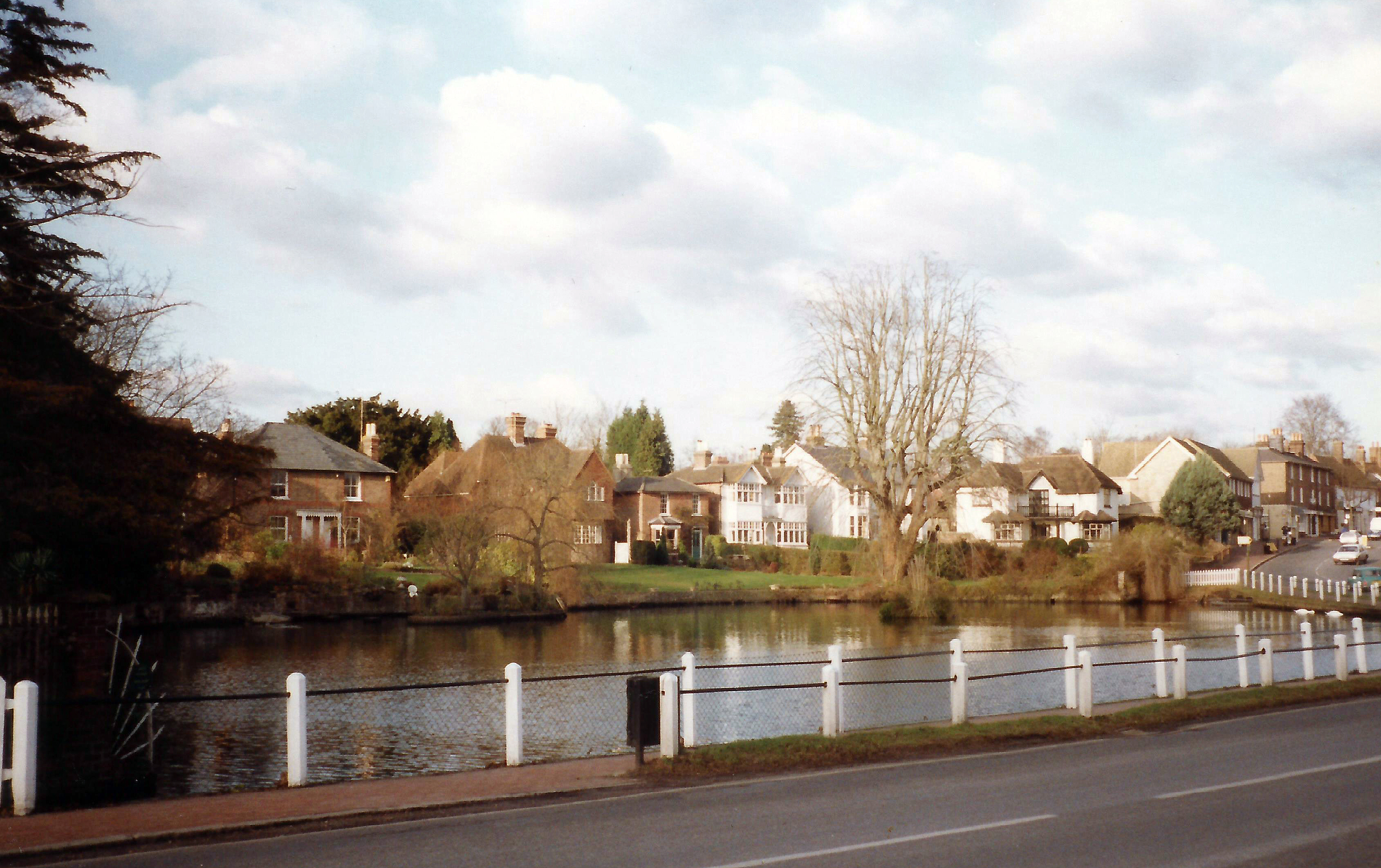 Village Duckpond, Lindfield, West Sussex